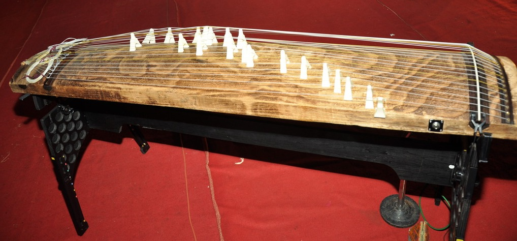 The koto (箏) is a traditional Japanese stringed musical instrument